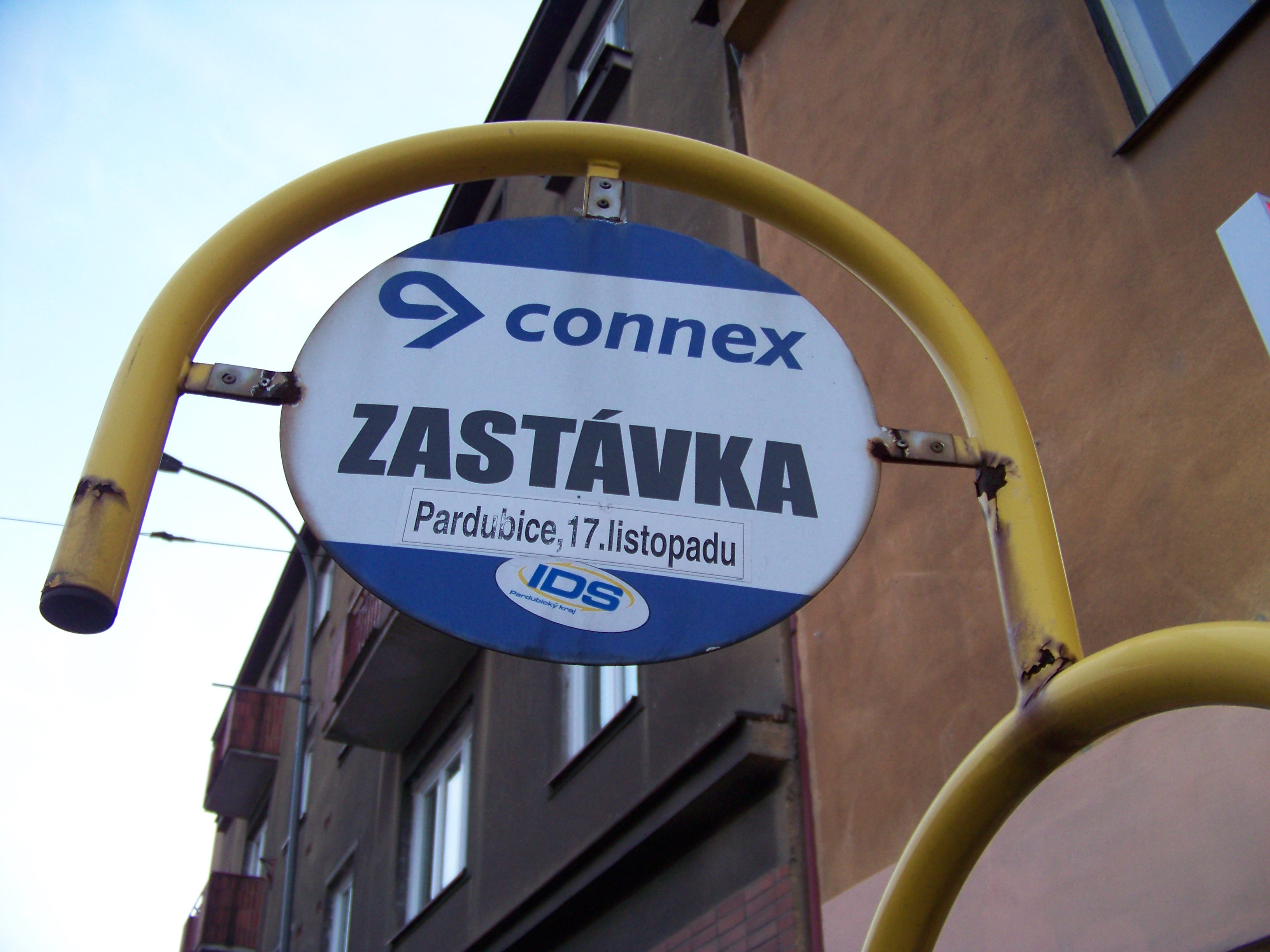 Pardubice-Zelené Předměstí, the Czech Republic. Street of 17th November. A bus stop "Pardubice, 17. listopadu". - Google Maps - Google Earth